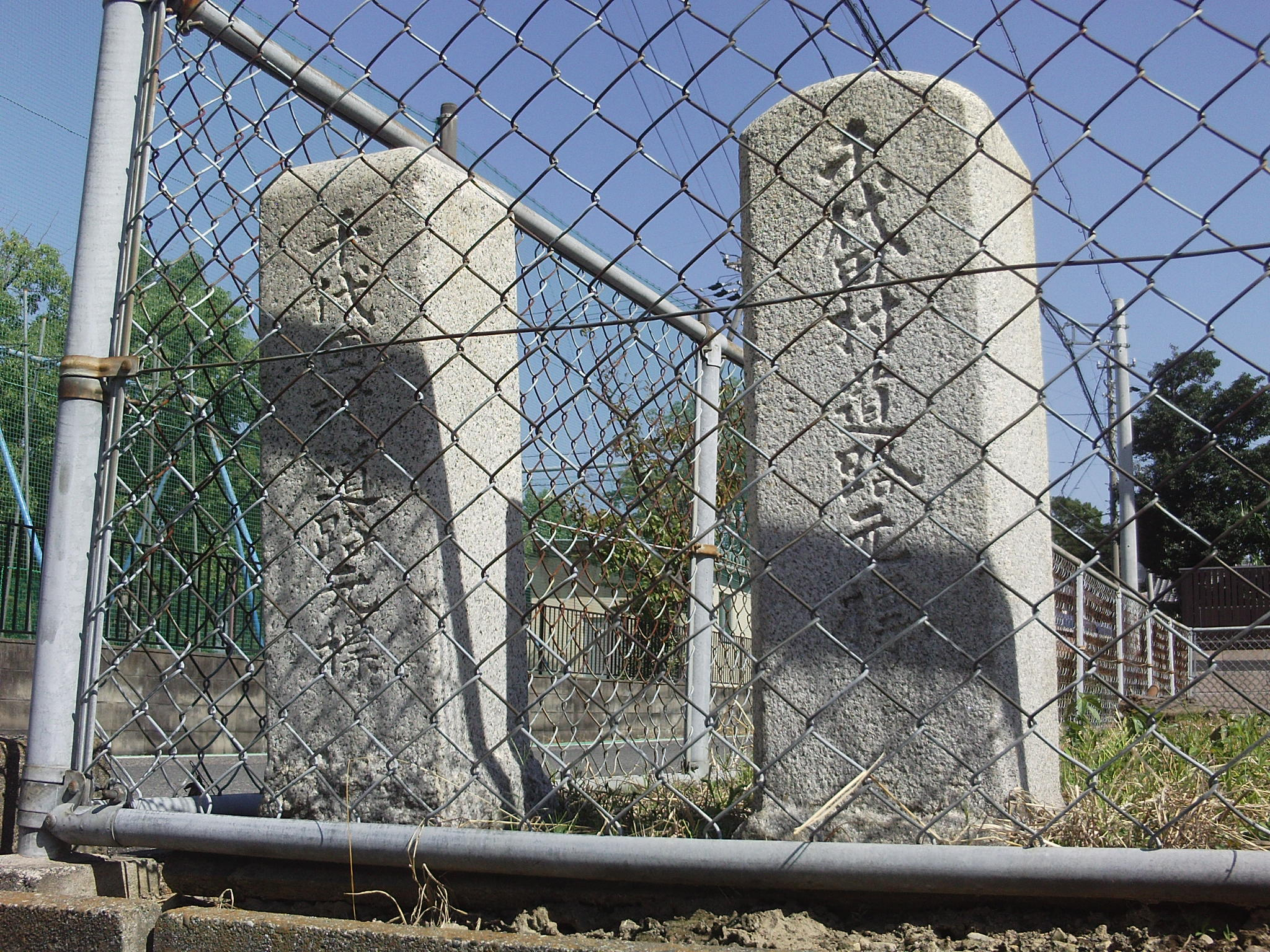 Kilometre zero of Chiyoda village. (Chiyoda village, Nakashima-gun, Aichi.)